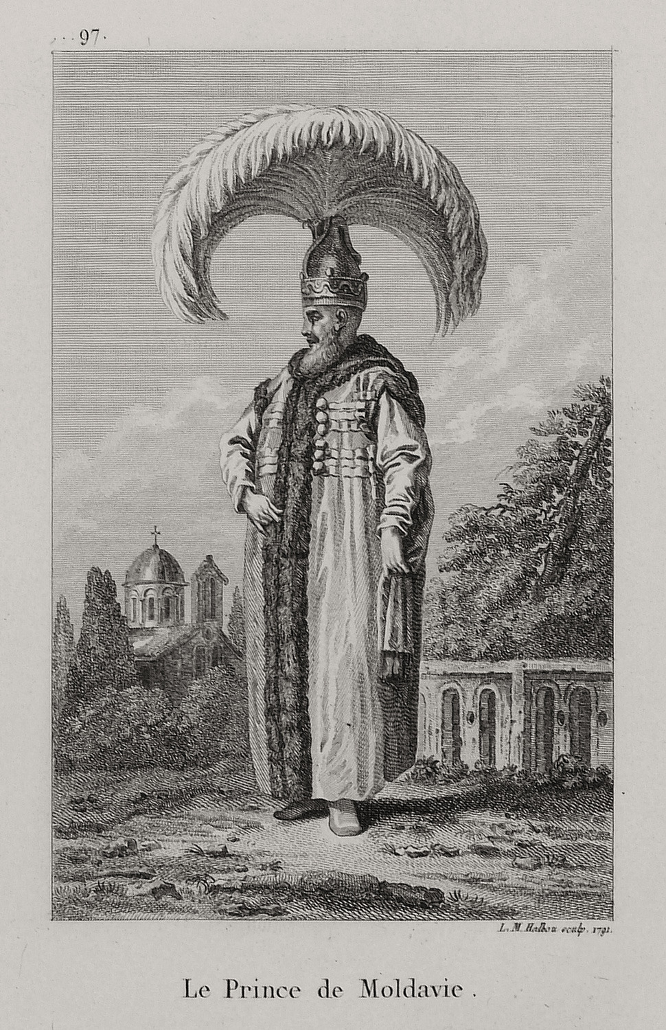 Marie-Gabriel-Florent-Auguste Comte de Choiseul-Gouffier. Voyage pittoresque de la Grèce. Paris, J.-J. Blaise M.DCCC.IX, (1782 1st volume, 1809 2nd volume, 1822 3rd volume, 1842 2nd edition)